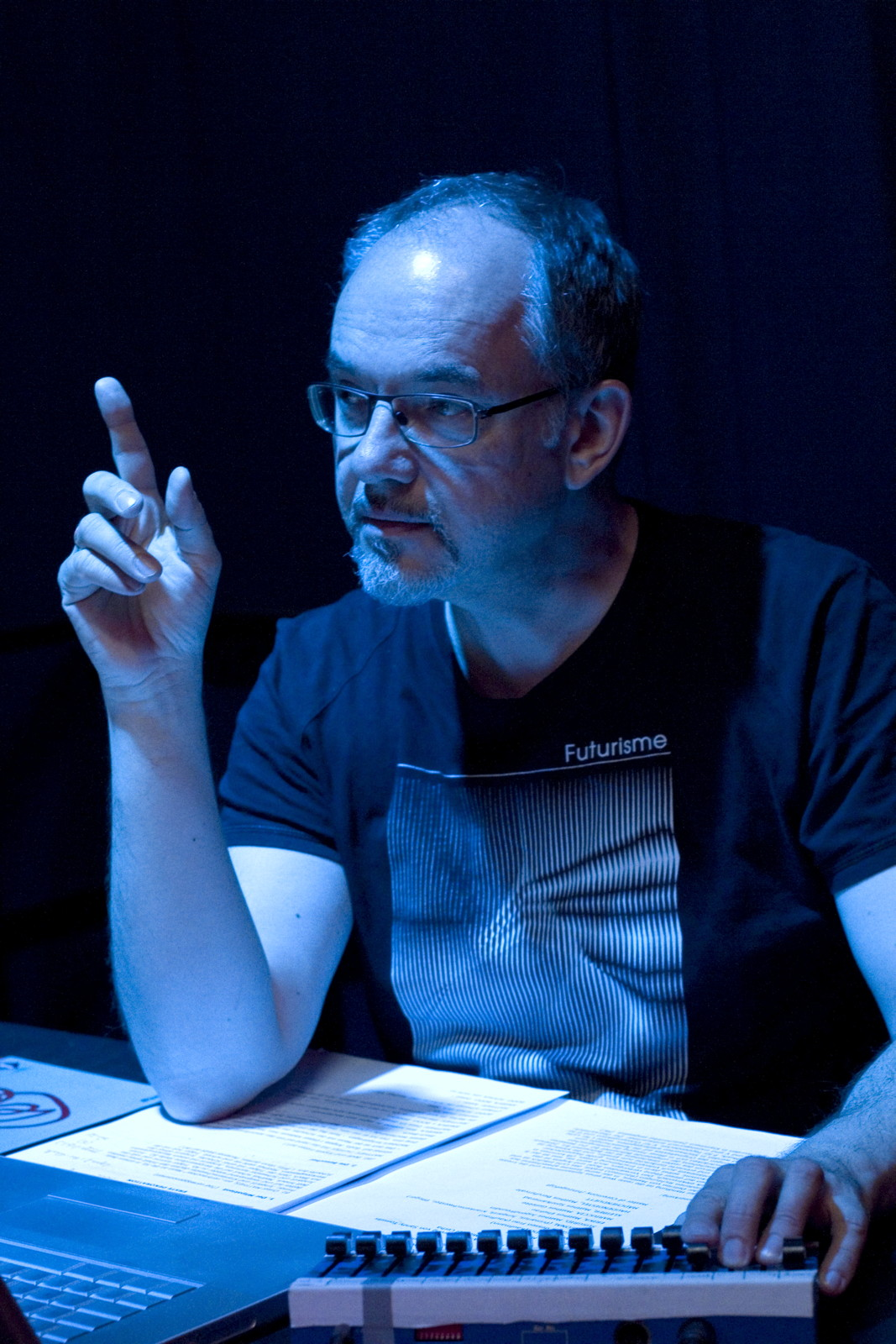 Composer Karlheinz Essl performing on his computer instrument m@ze°2 at Theater Spielraum (Vienna 2011)